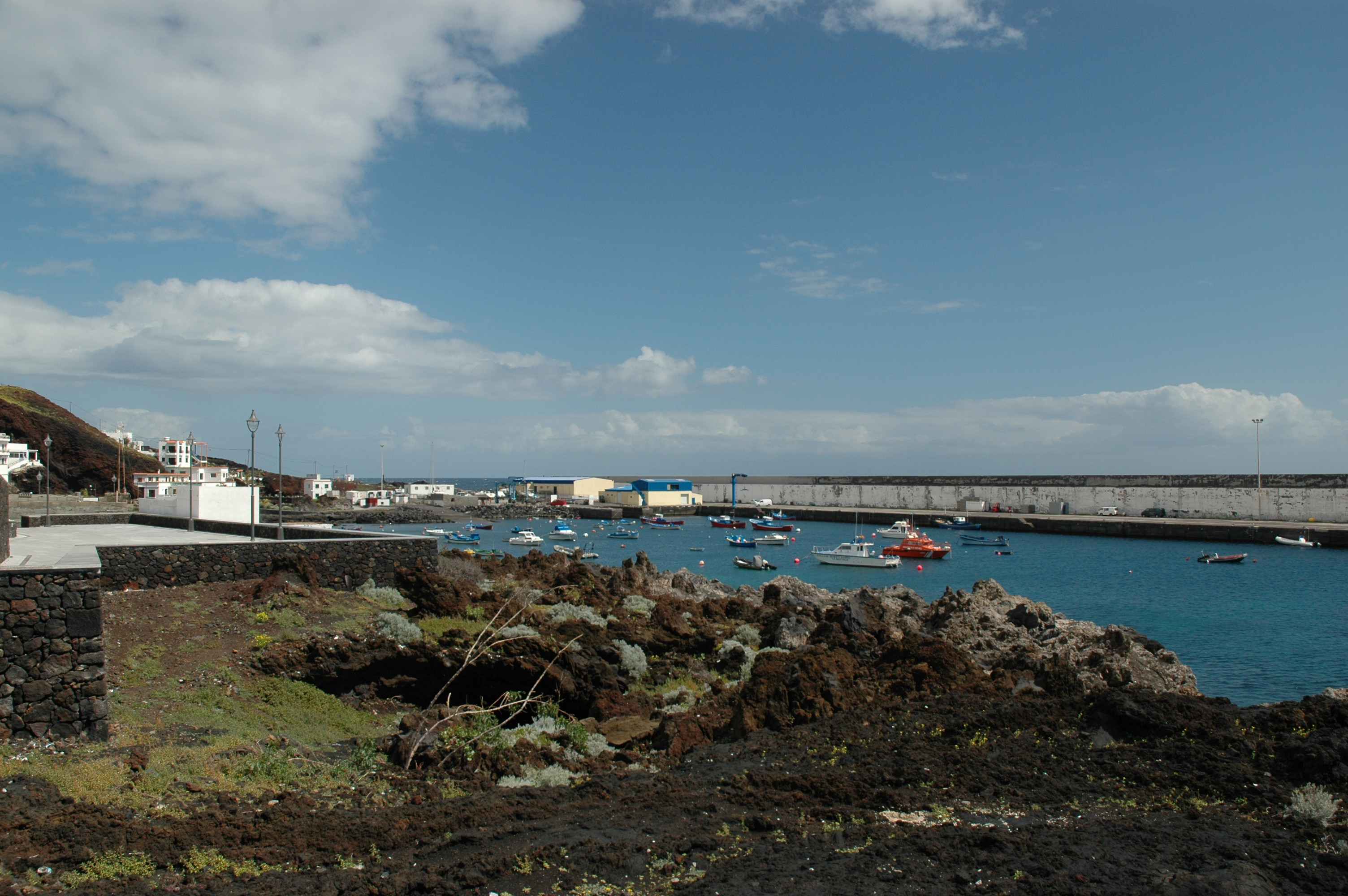 La Restinga Fishing Warf. El Hierro (Spain).